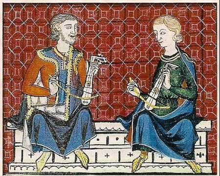 Rebabs or rababs or rebecs from the Cantigas de Santa Maria. Small instruments related (according to Curt Sachs, 1940, the History of Musical Instruments, p 251-251) to the gambus, kopuz, and mandola.